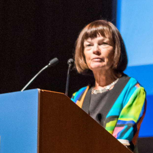 Donna Scheeder accepting the IFLA Honorary Fellow The International Federation of Library Associations 2019 conference IFLA WLIC 2019 captured by students from the University of West Attica. 29 August closing session